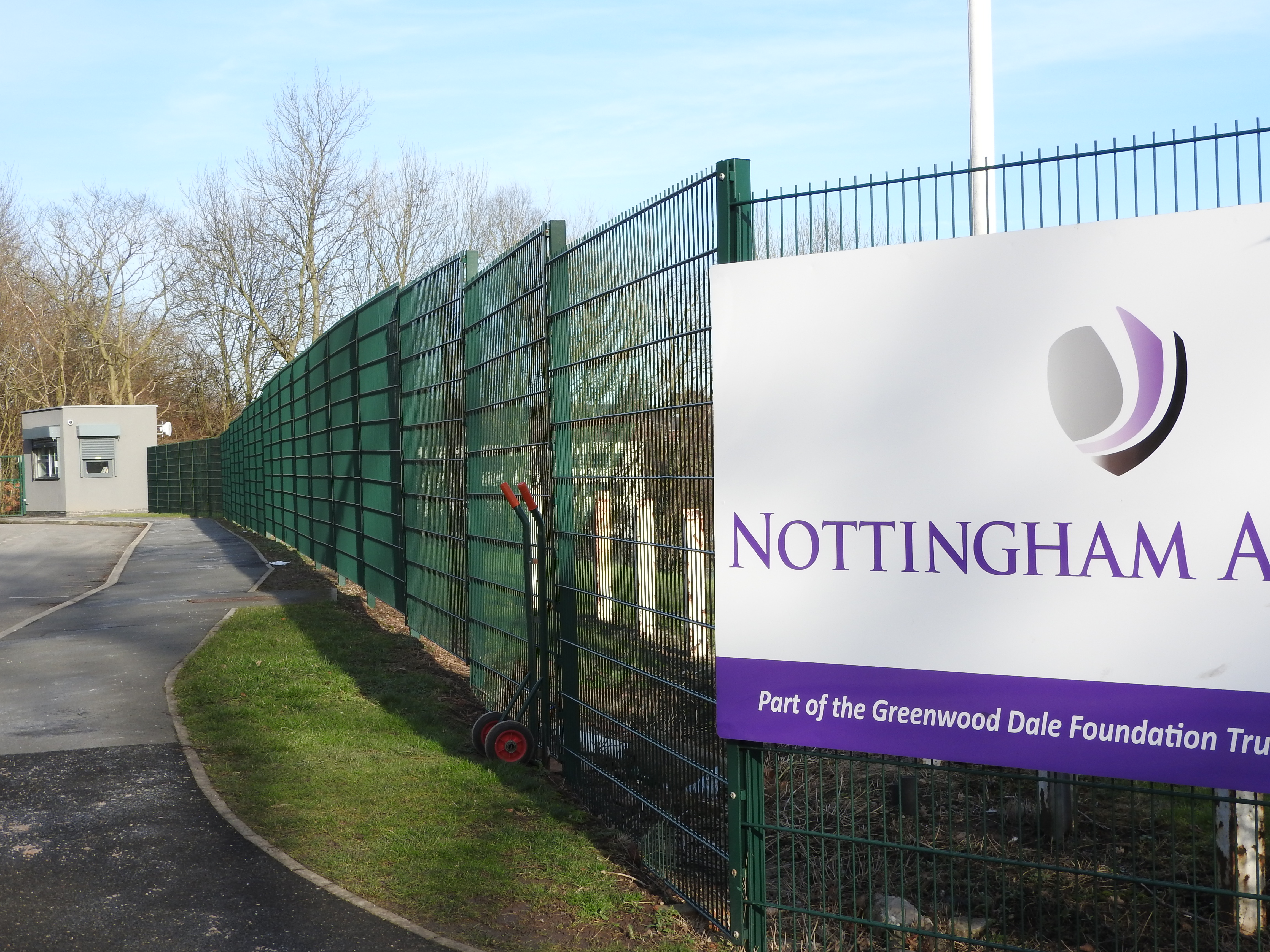 Nottingham Academy, the Ransom Road Site.